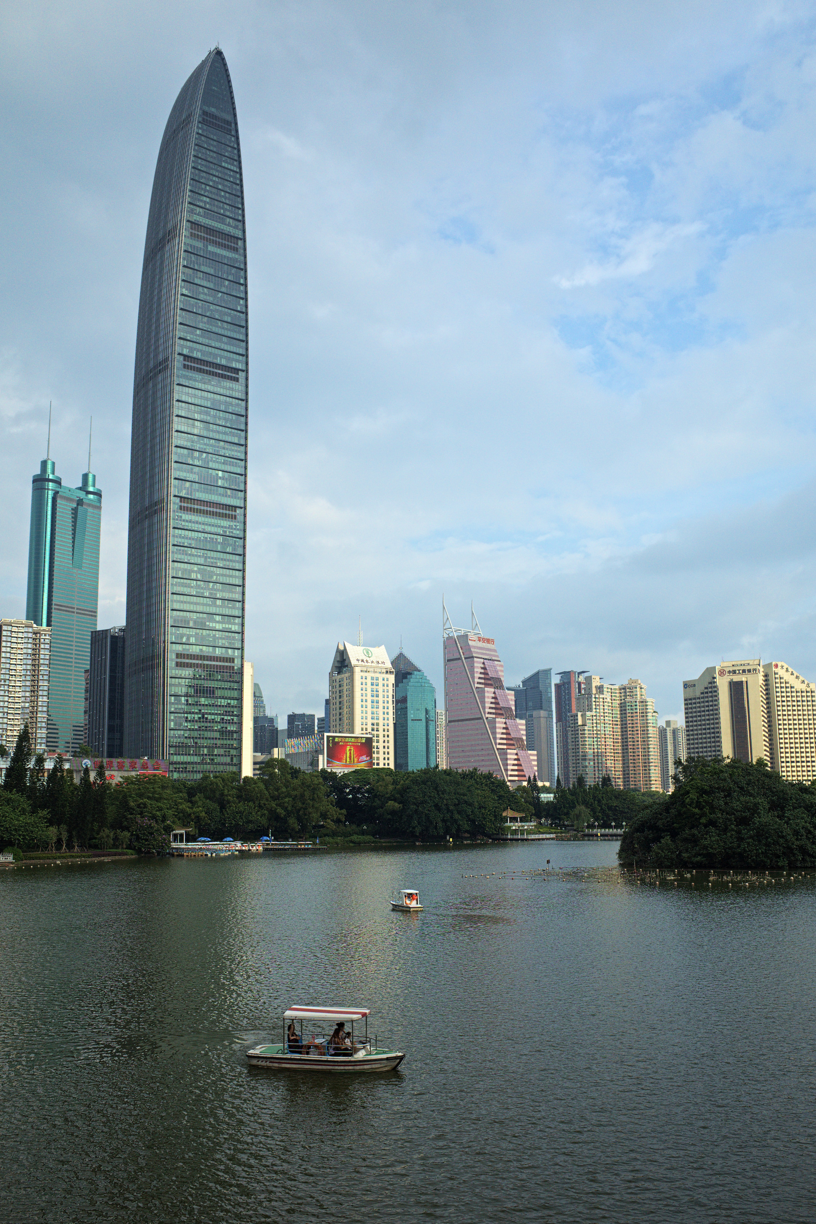 Lizhi Park (荔枝公园),Shenzhen, Guandong Province, China